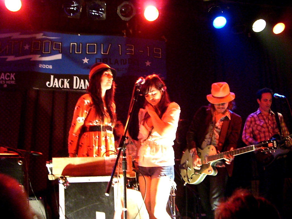 The Elected Live at the Orlando Social. Monday Nov 13th 2006. The Elected, fronted by Blake (Rilo Kiley guitarist/co-songwriter), released its debut album, Me First, in 2004. Recorded sporadically at pal Elliott Smith's studio with Bright Eyes superman Mike Mogis and The Postal Service's Jimmy Tamborello, the album was filled with sparse, intimate gems - twinkling pop songs that recalled '60s-inspired West Coast pop, the blissful twang of Gram Parsons and the crumpled whispers of Neil Young.